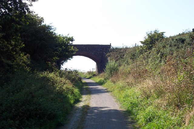 Railway bridge near Mortehoe station, Devon